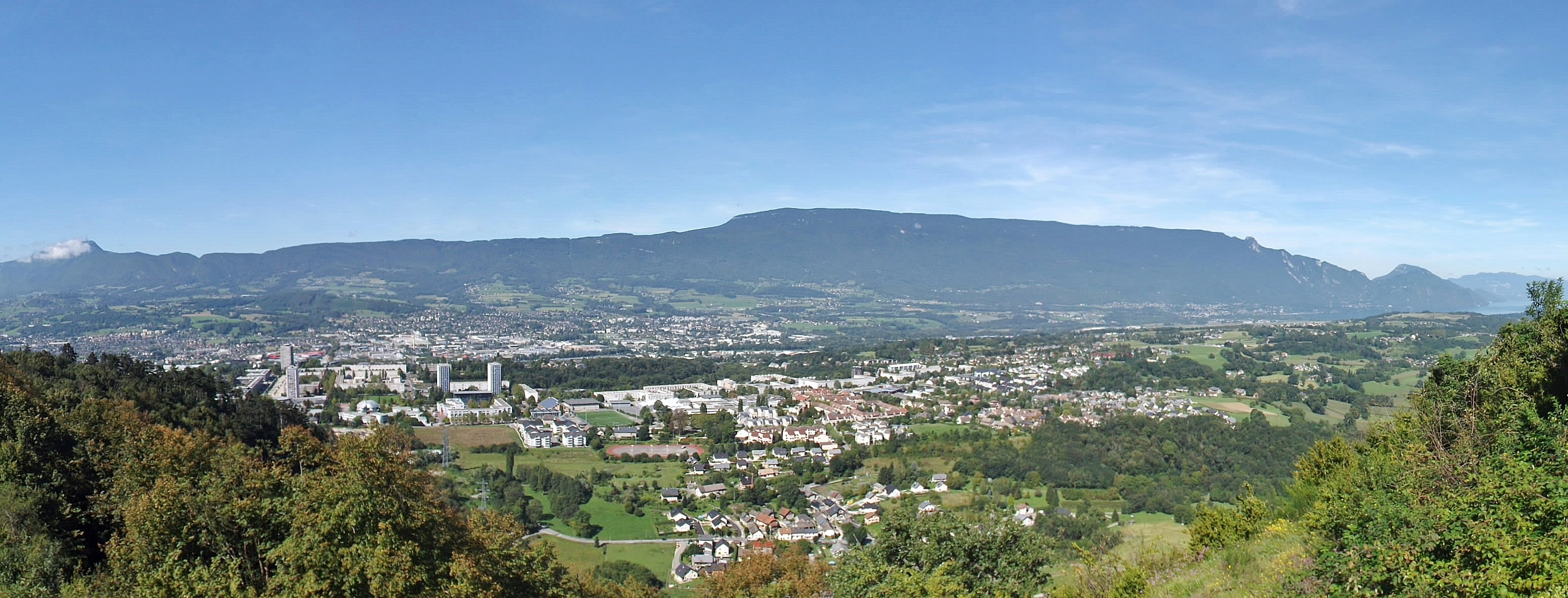 Panoramic sight, from Les Monts hill, of Les Hauts-de-Chambéry neighborhood of Chambéry at the foreground, and commune of Sonnaz on the right, in Savoie, France.